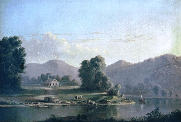 At the Bend in Conneaut Creek, Kingsville, Ohio. oil on canvas, 13 1/2" x 20"